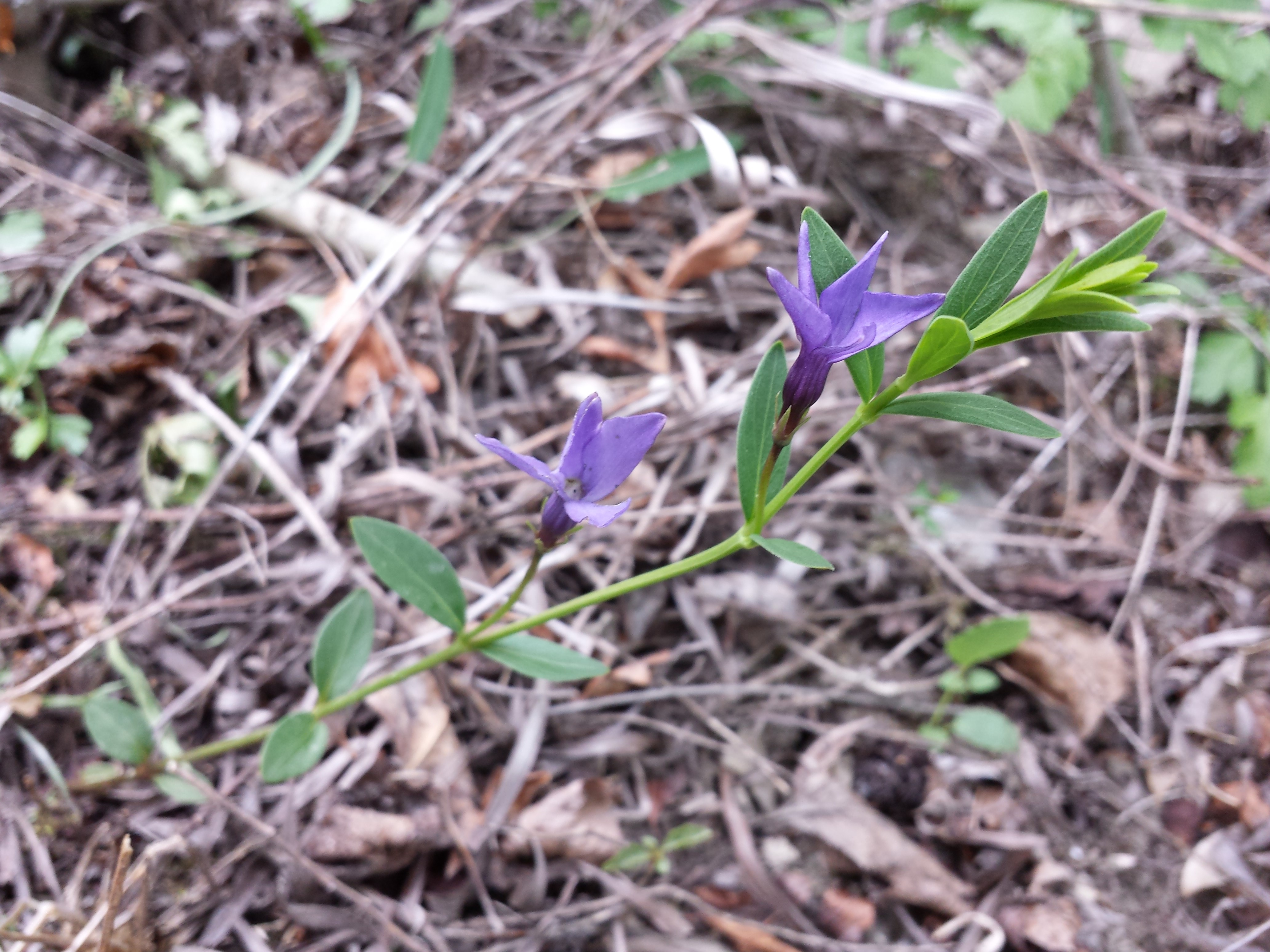 Habitus Taxon: Vinca herbacea (sensu Fischer et al. EfÖLS 2008 ISBN 978-3-85474-187-9) Location: Bisamberg, district Korneuburg, Lower Austria - ca. 300 m a.s.l. Habitat: rocky way